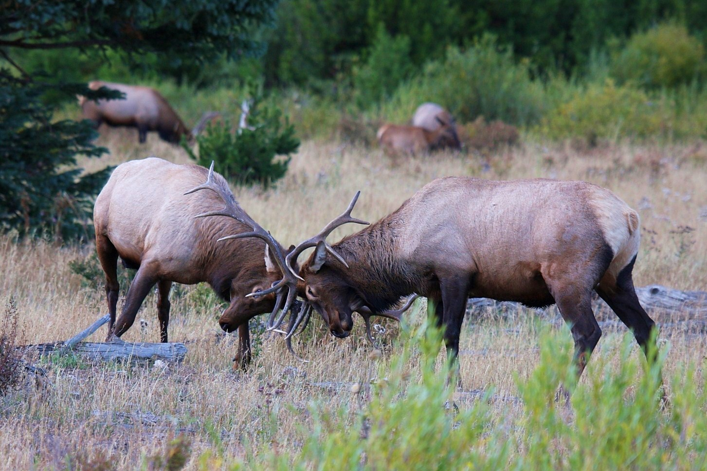 Rocky Mountain National Park - Denver, CO